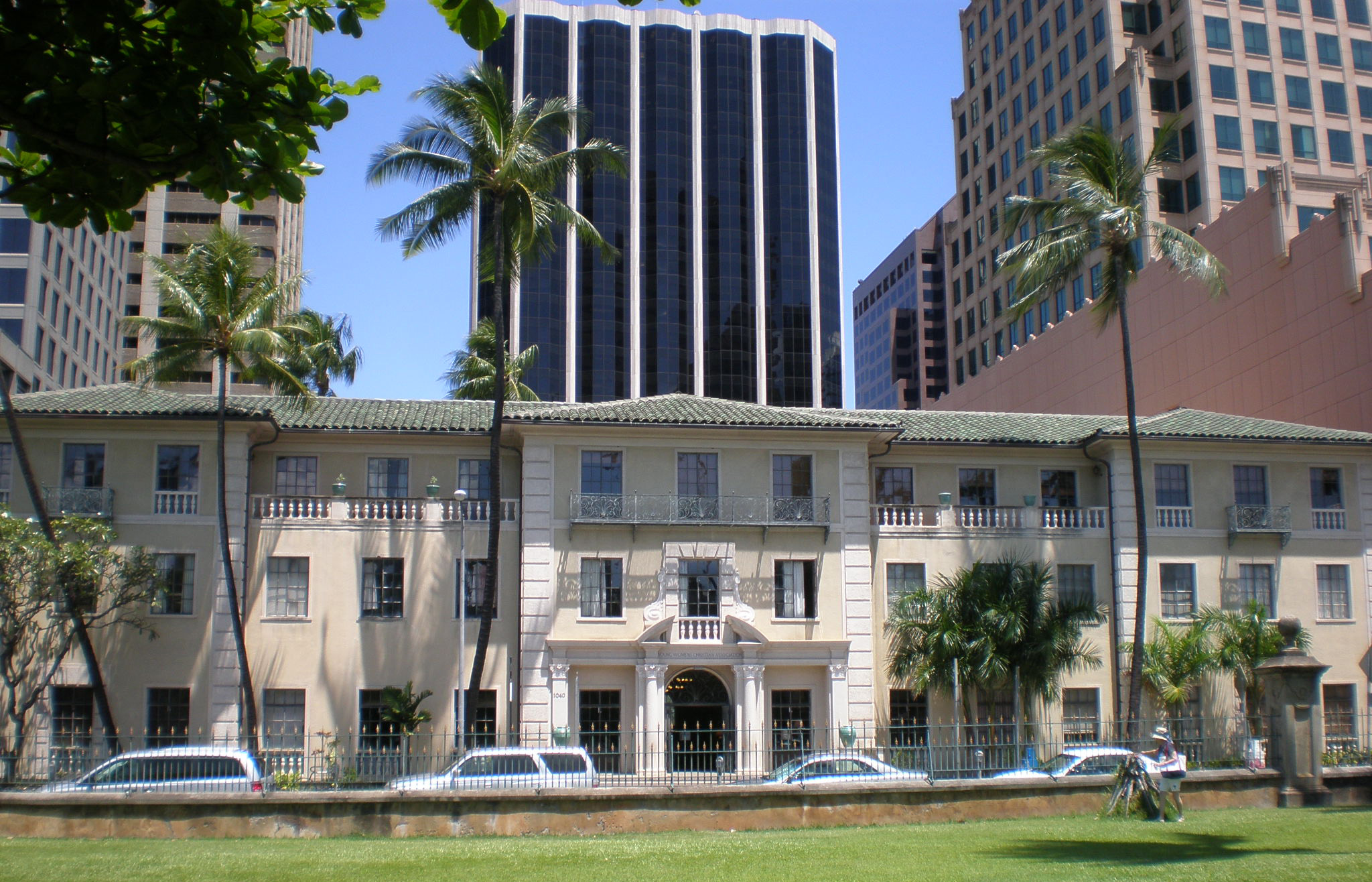 Front elevation, Laniakea YWCA, 1040 Richards St., Honolulu, Hawaii. Built 1927, architect Julia Morgan. Contributing property in the Hawaii Capital Historic District, on the National Register of Historic Places.